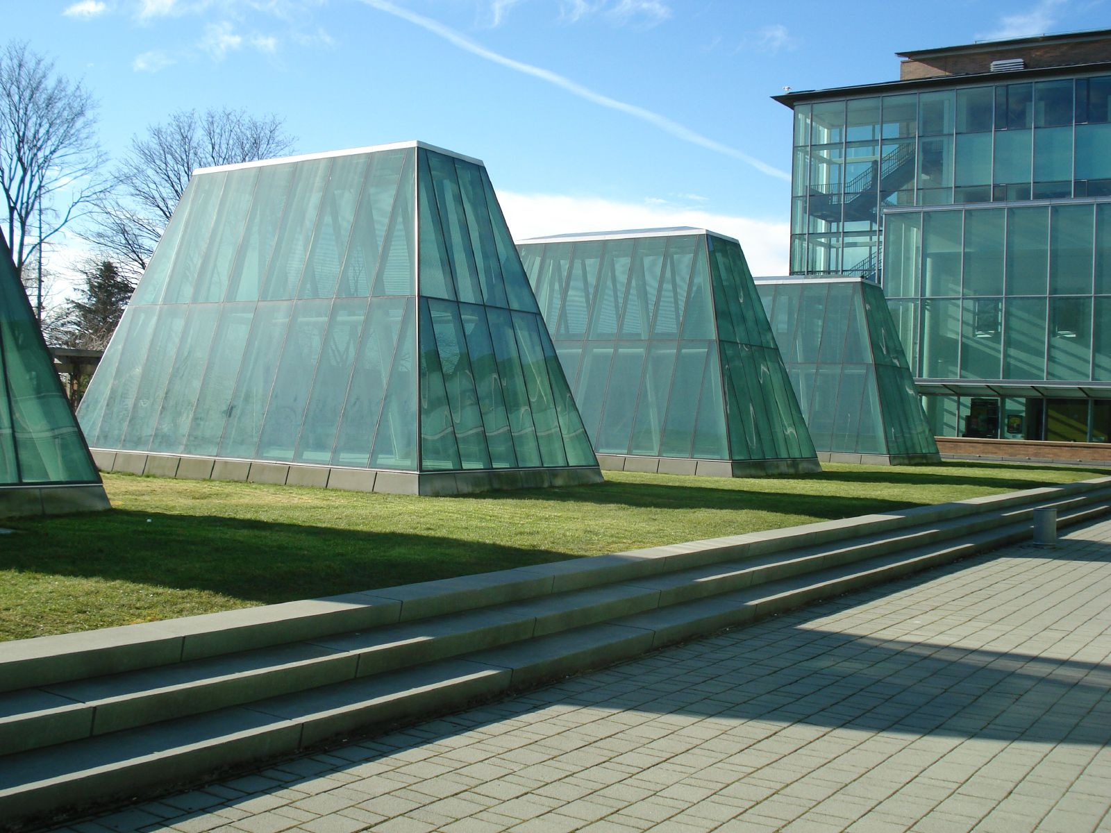 The skylights in the yard of William H. Gates Hall on the University of Washington Seattle campus, home of UW School of Law.